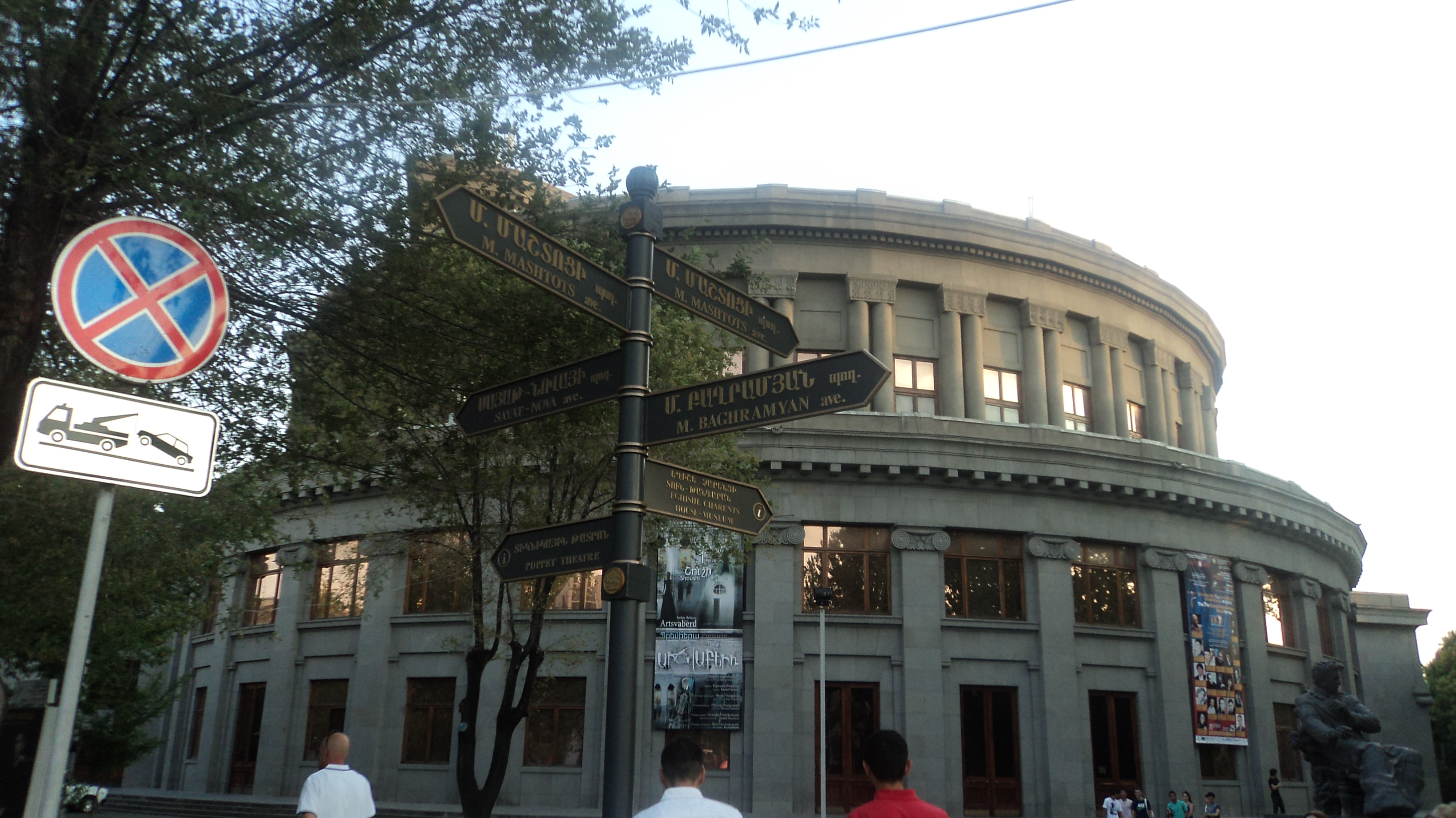 Օպերայի և բալետի պետական ակադեմիական թատրոն